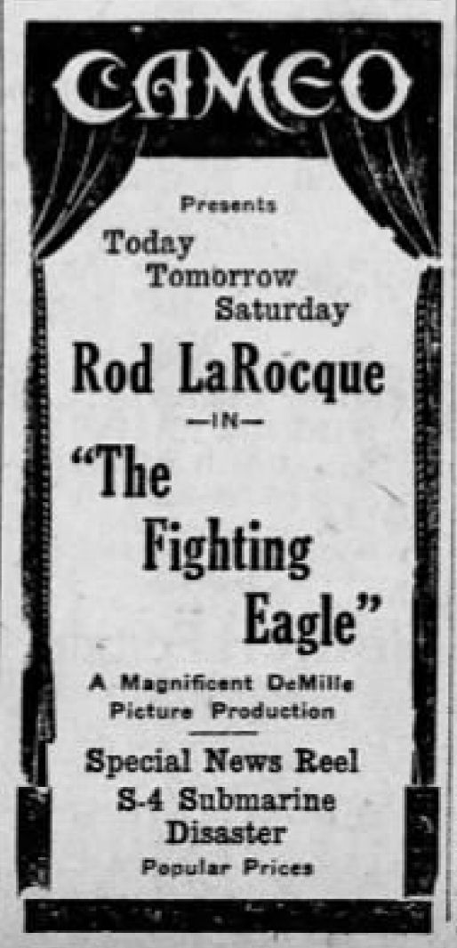 Cameo Theater advertisement for the American film The Fighting Eagle (1927) - 22 Dec Morning Caller - Allentown PA